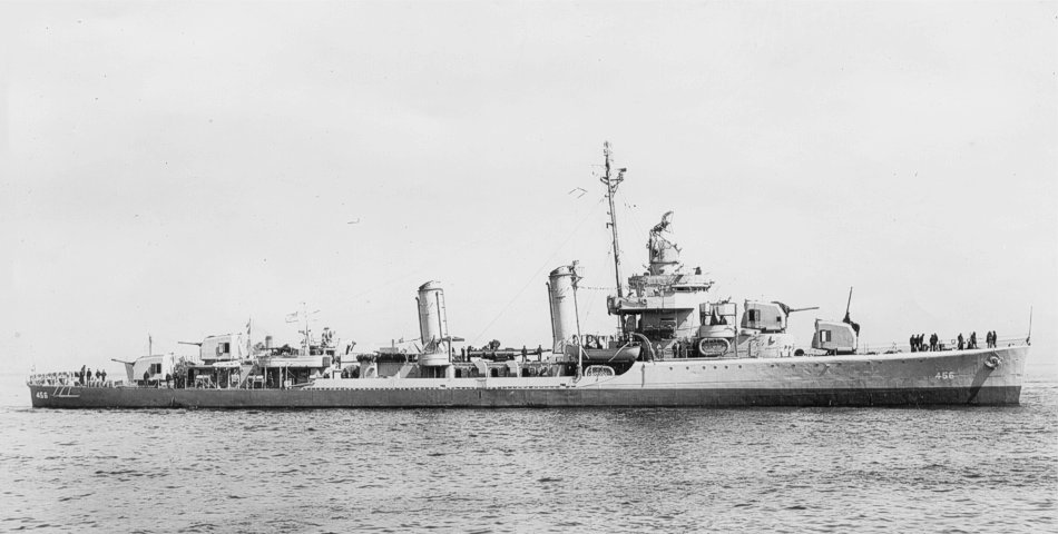 USS Rodman (DD-456), off Boston, 2 April 1943. Edited by Destroyer History Foundation from [ photo 19-N-42483 ] scanned at the National Archives and Records Administration.